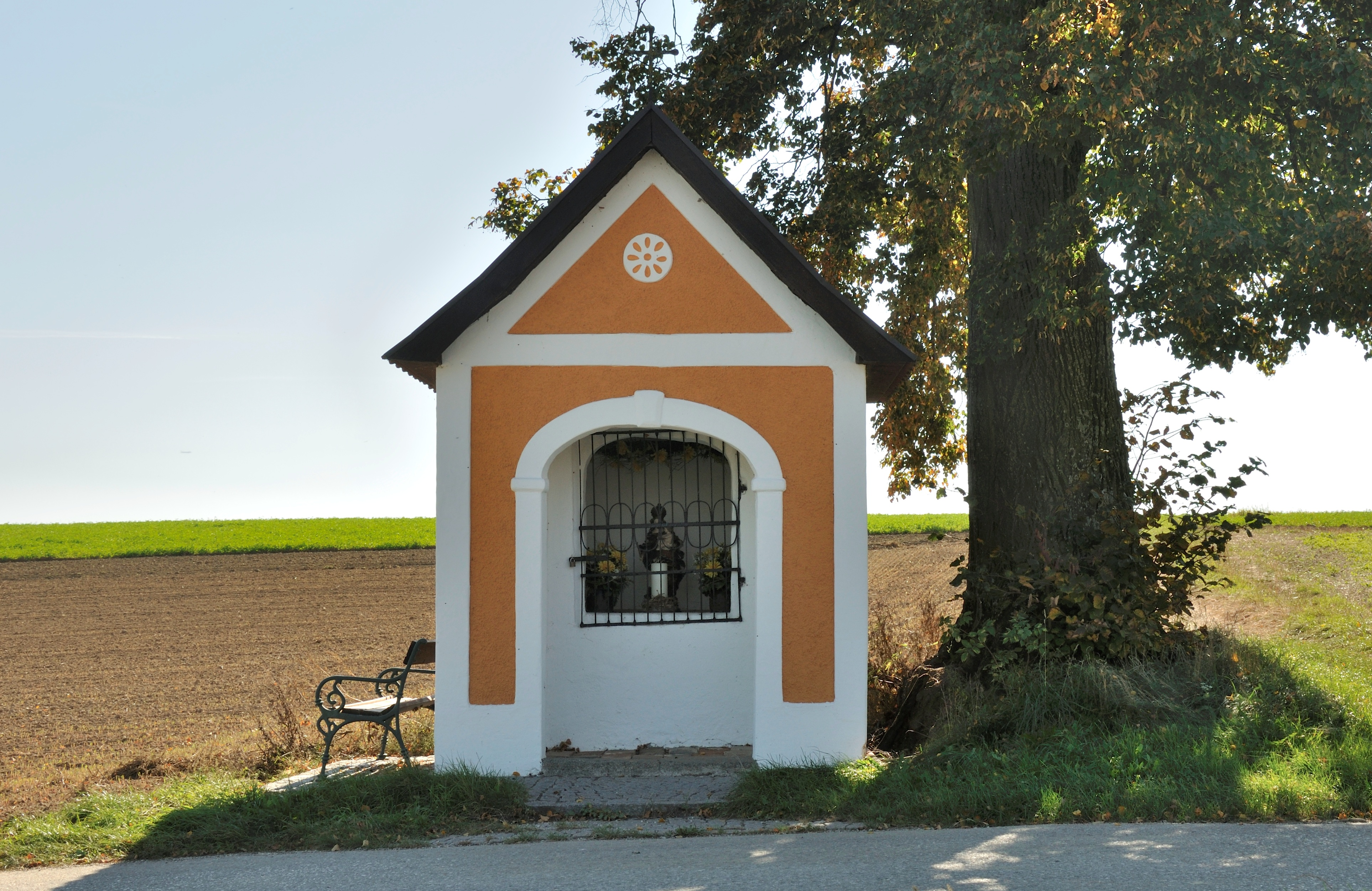 This chapel, named Holzerkapelle, in Weinzierl (Perg) was erected in thanks for being shielded of a bad thunderstorm.